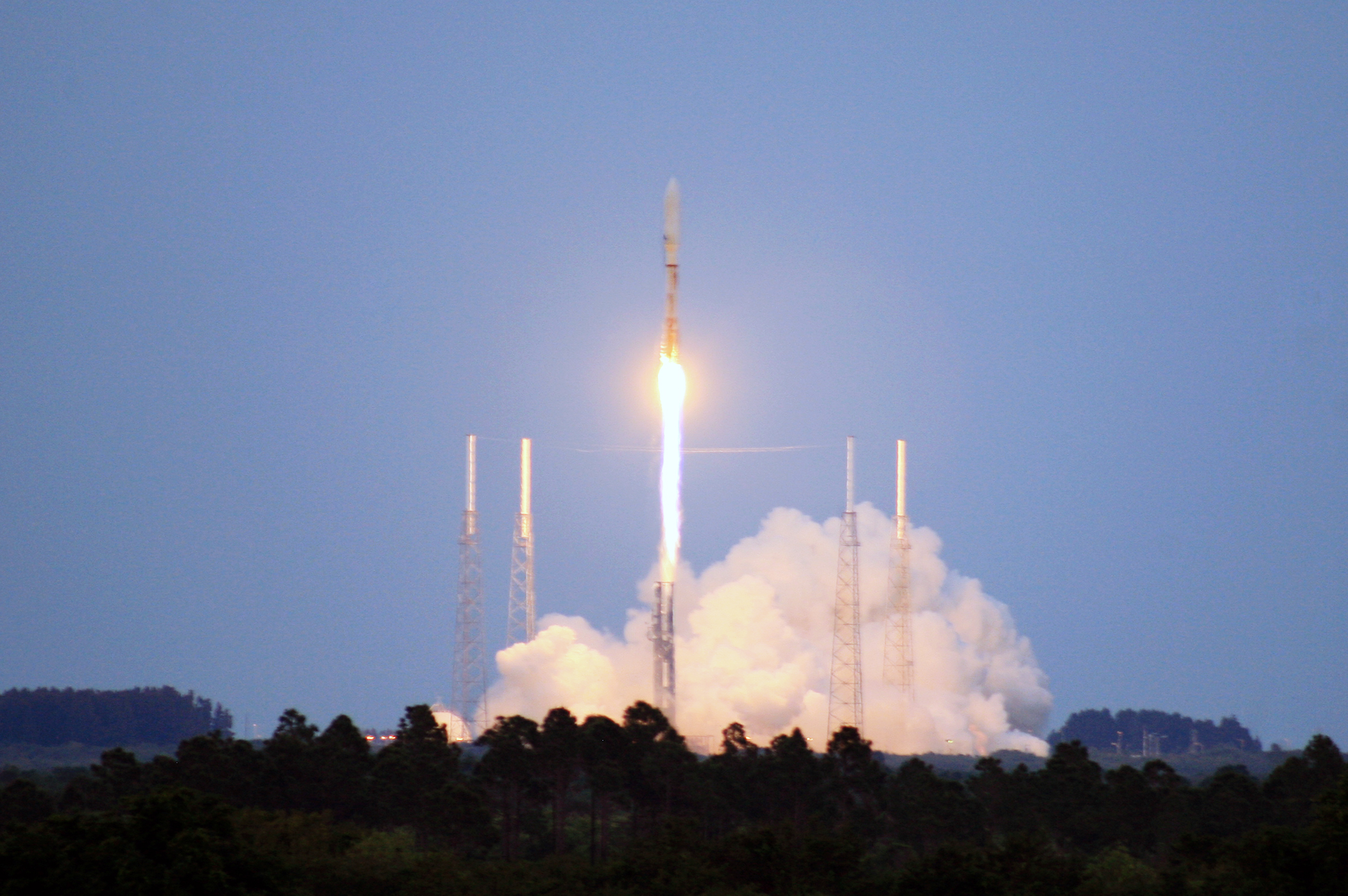 The X-37B Orbital Test Vehicle makes its first space flight aboard an Atlas V rocket April 22, 2010, from Complex 41 at Cape Canaveral Air Force Station, Fla.